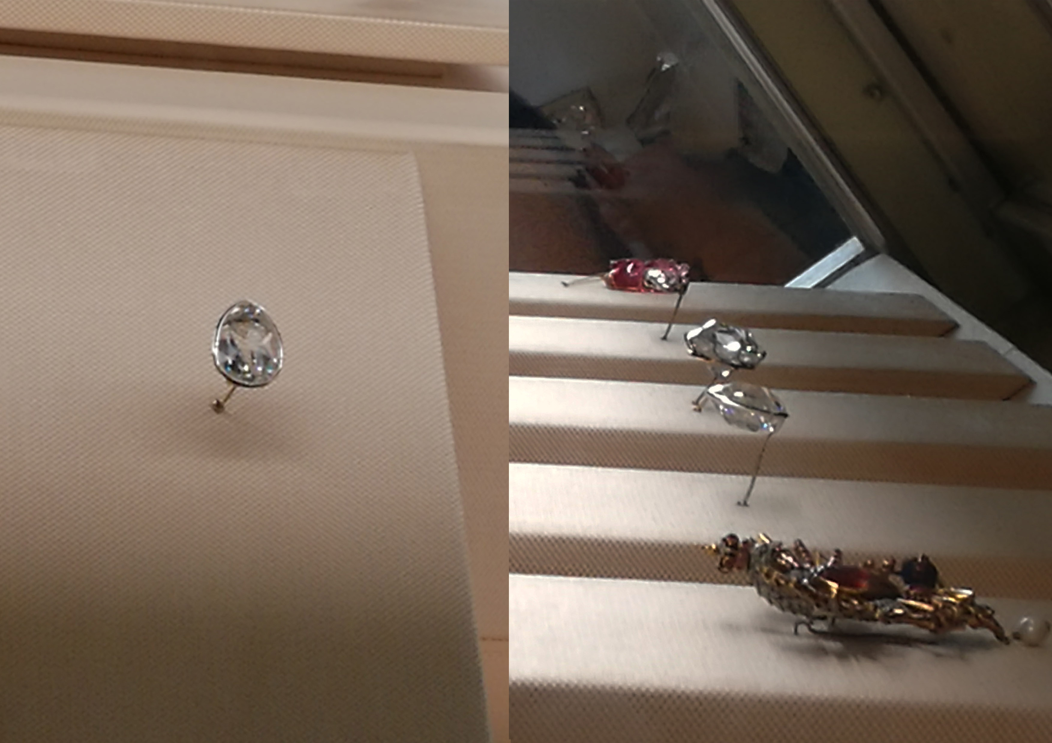 The Sancy,a pale yellow diamond of 55.23 carats (11.046 g).